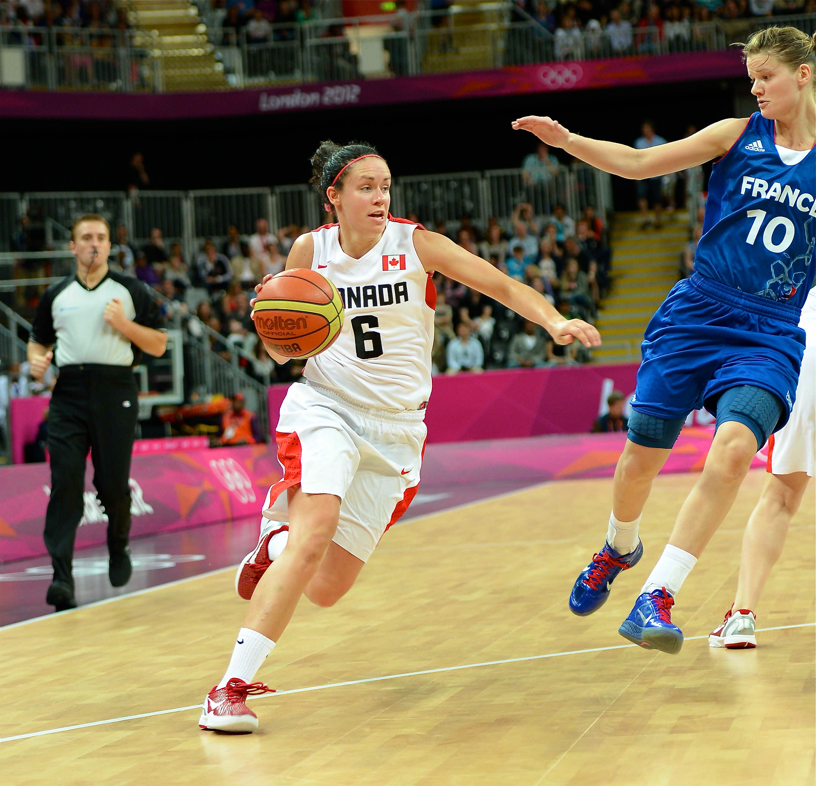 Posted via email from Globalite Magazine